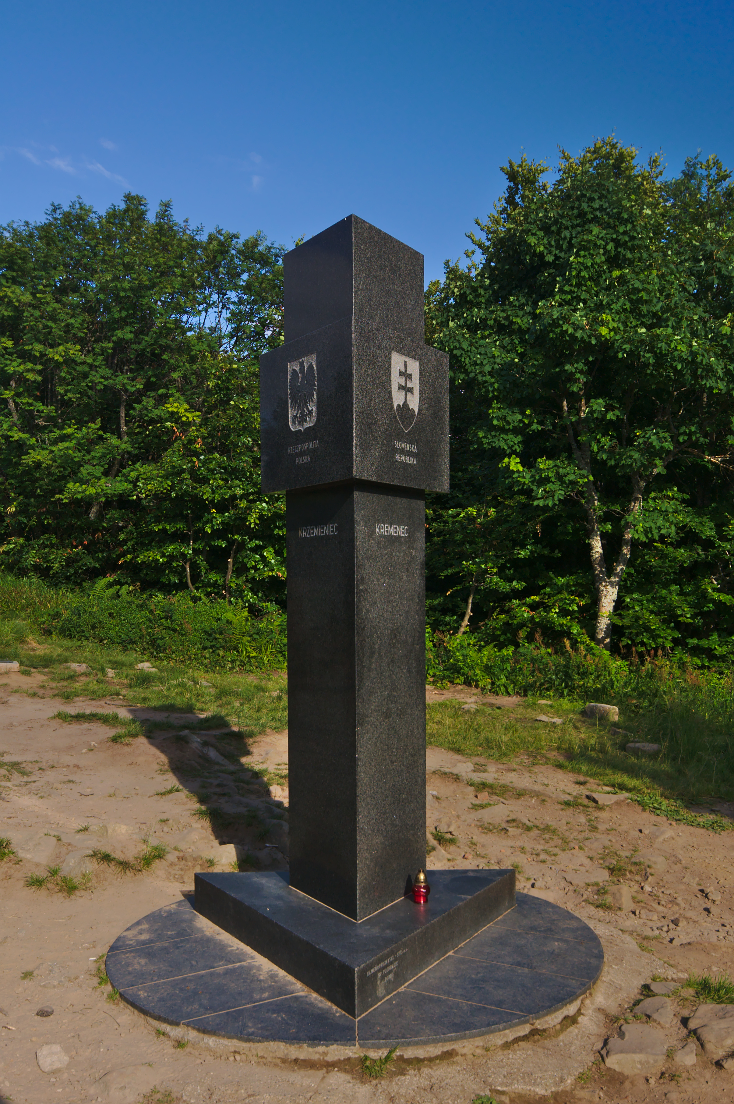 Slovak, Polish and Ukrainian border tripoint Kremenec/Krzemieniec/Кременець, the most eastern point of Slovakia and the former most eastern point of Czechoslovakia after the annexation of the Subcarpathian Ruthenia by the Soviet Union in 1945 (view from the Polish-Ukrainian border).